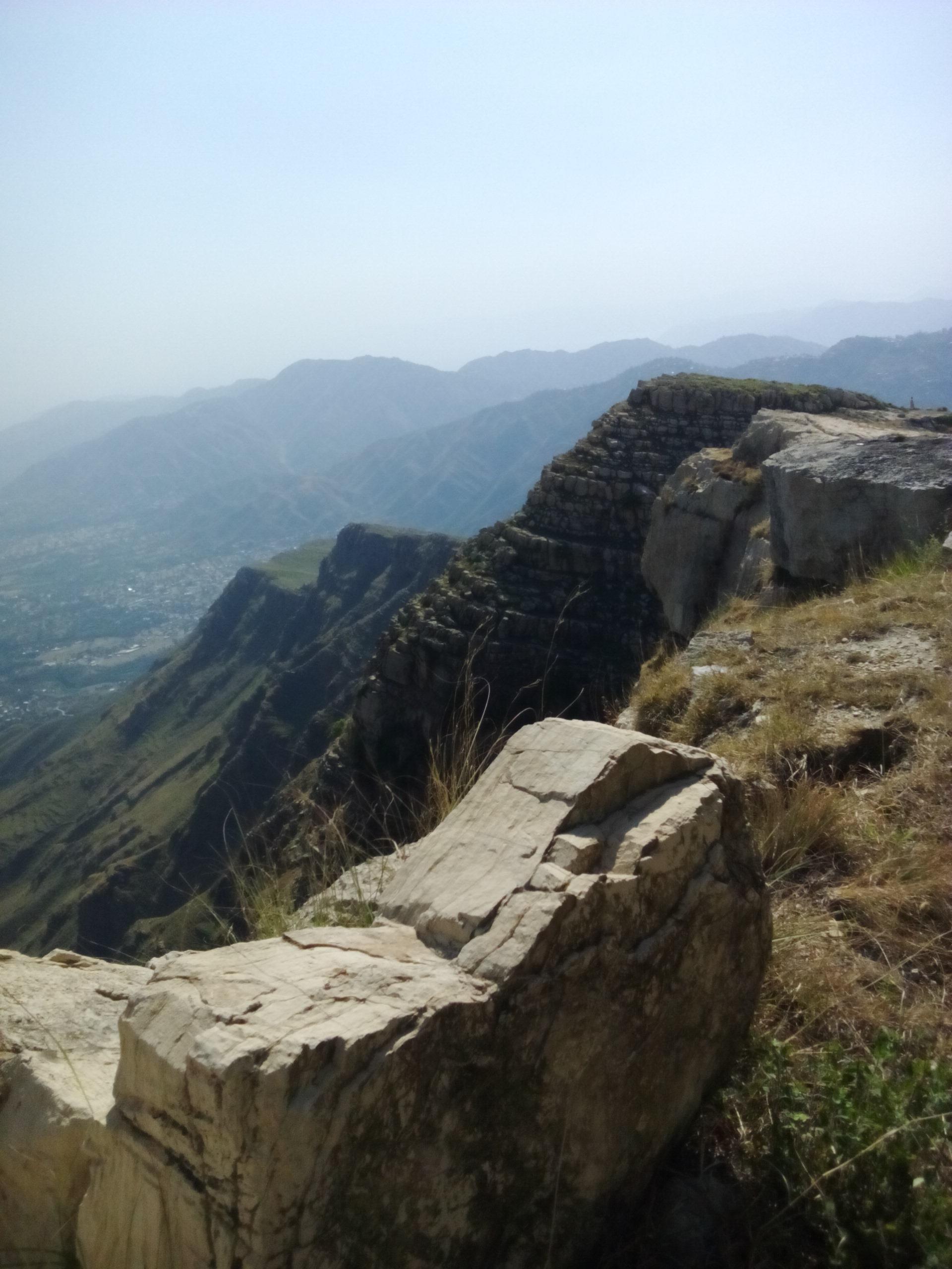 Sarban hill